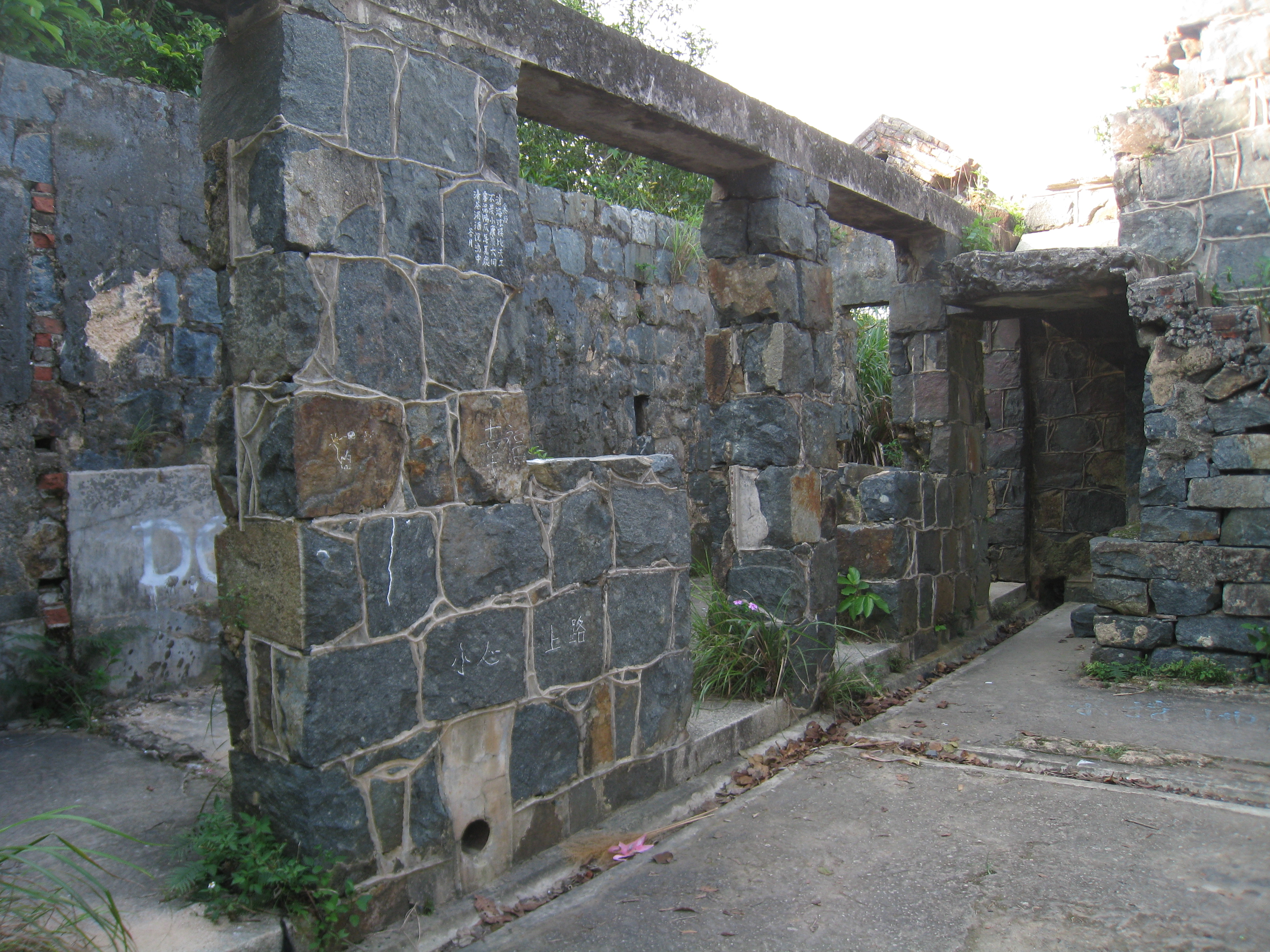 Mau Wu Shan Observation Post